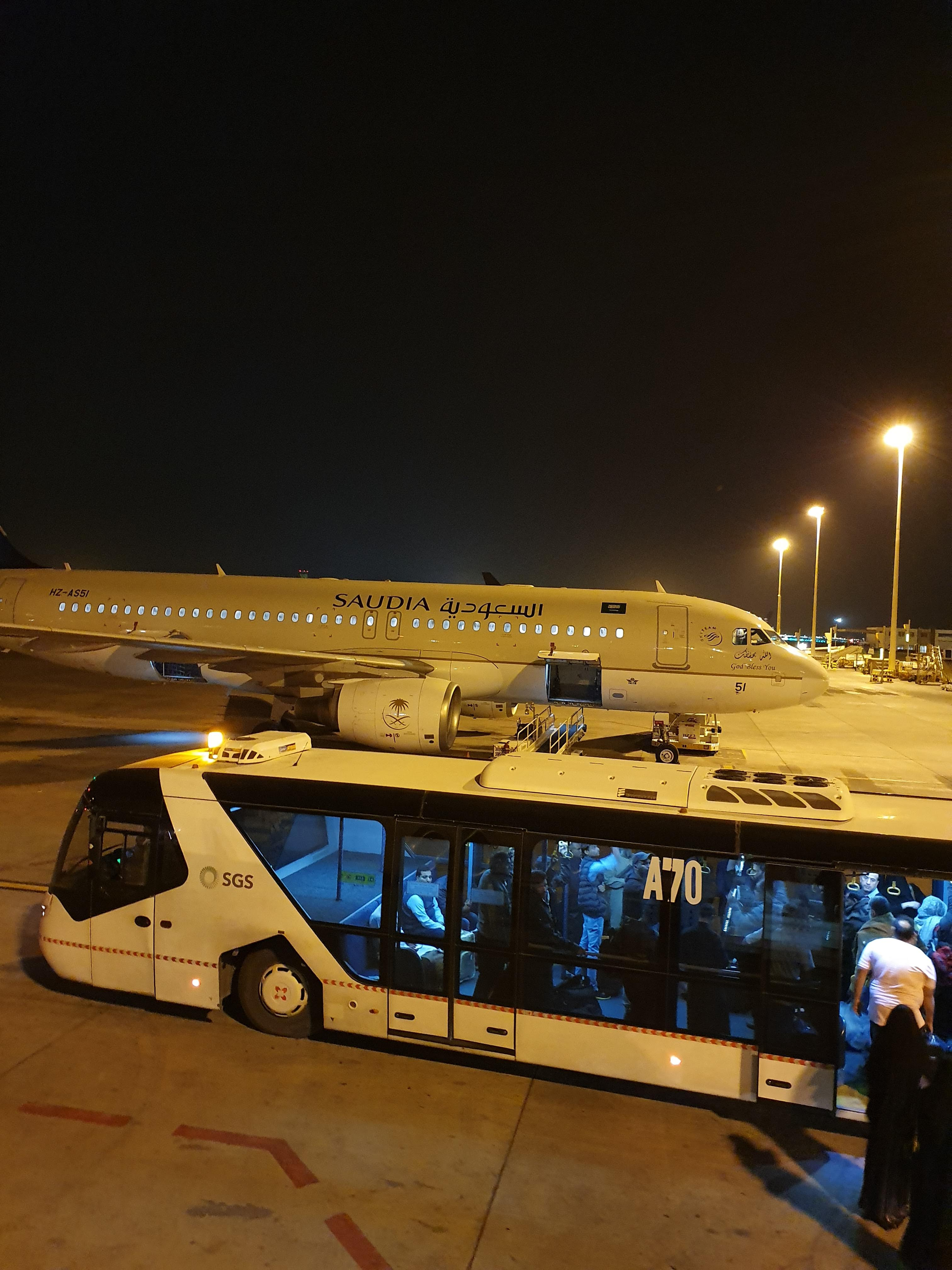 An airport bus loading the passengers coming out from the plane.